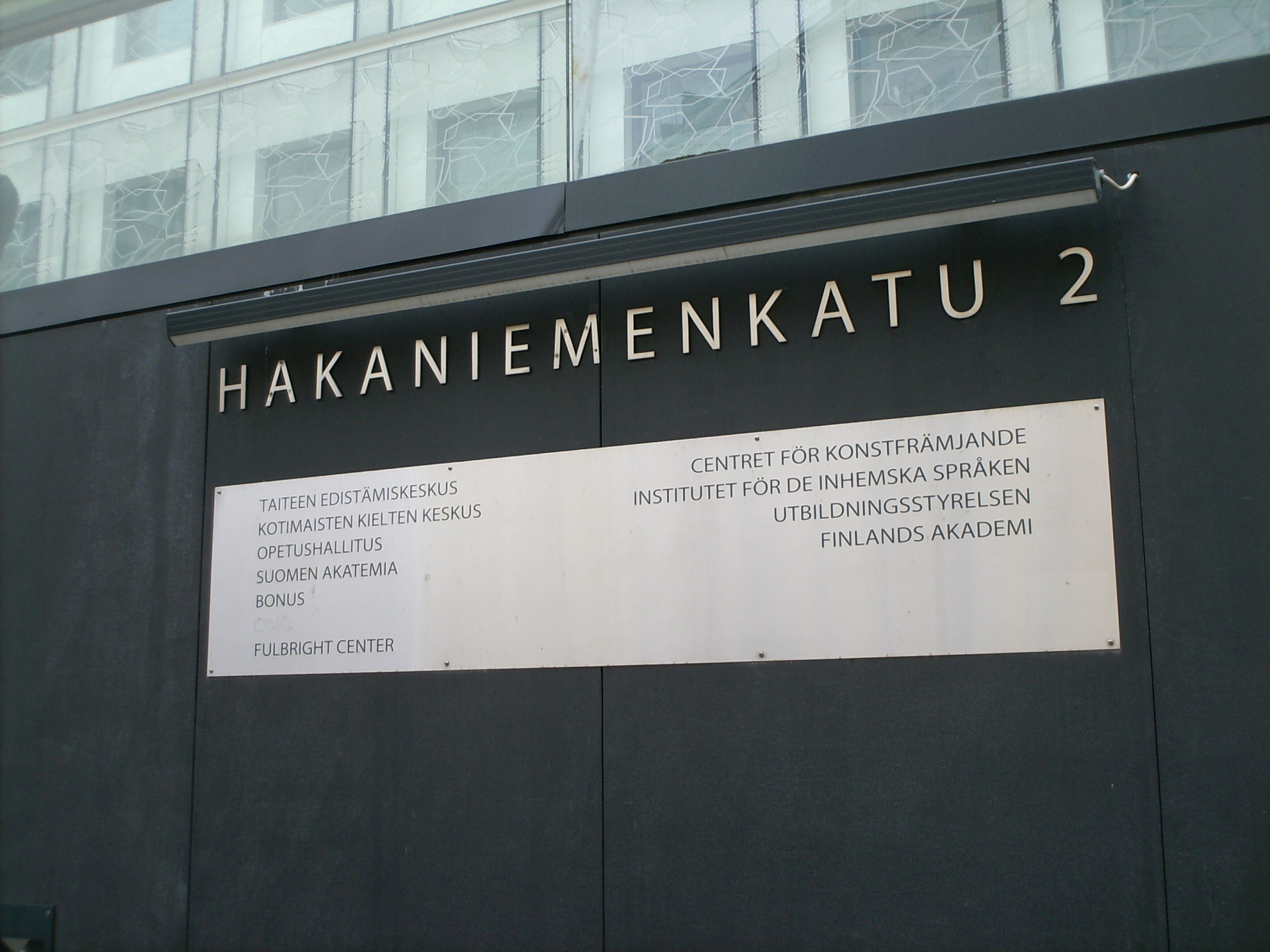 Photograph of the plaque at Hakaniemenkatu 2, Helsinki. Government institutions.